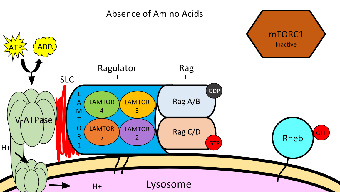 The rag-ragulator complex, which is found on the surface of lysosomes (an organelle that helps break down waste materials in cells), in its inactive form in the absence of amino acids.